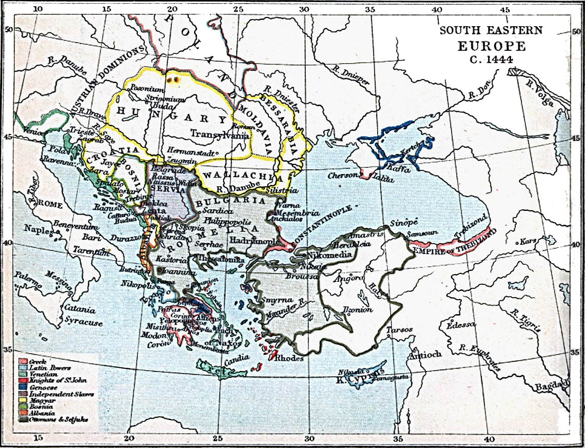 Map of south-eastern Europe in 1444 AD.